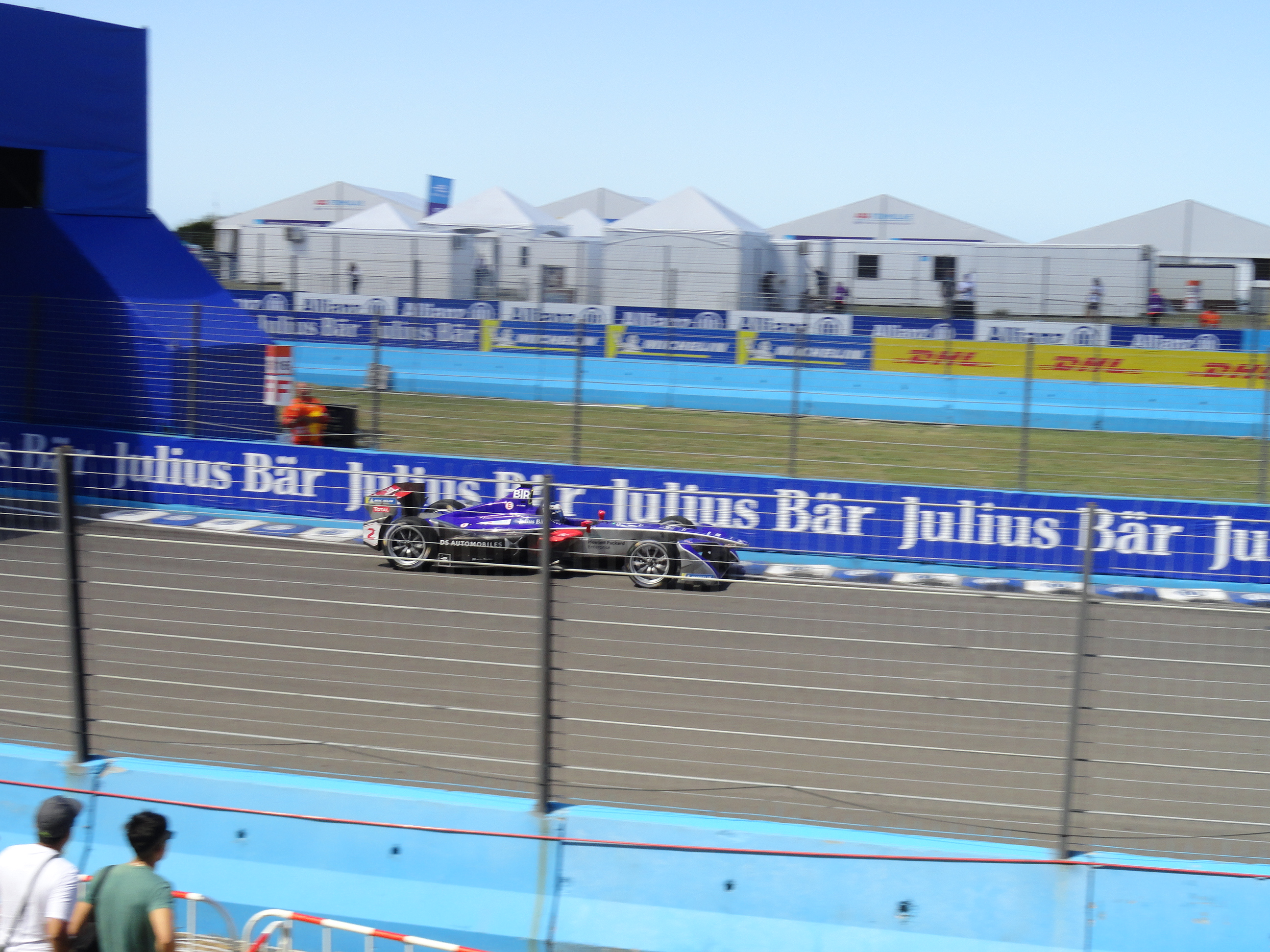 Qualifying at the 2018 Punta del Este ePrix.